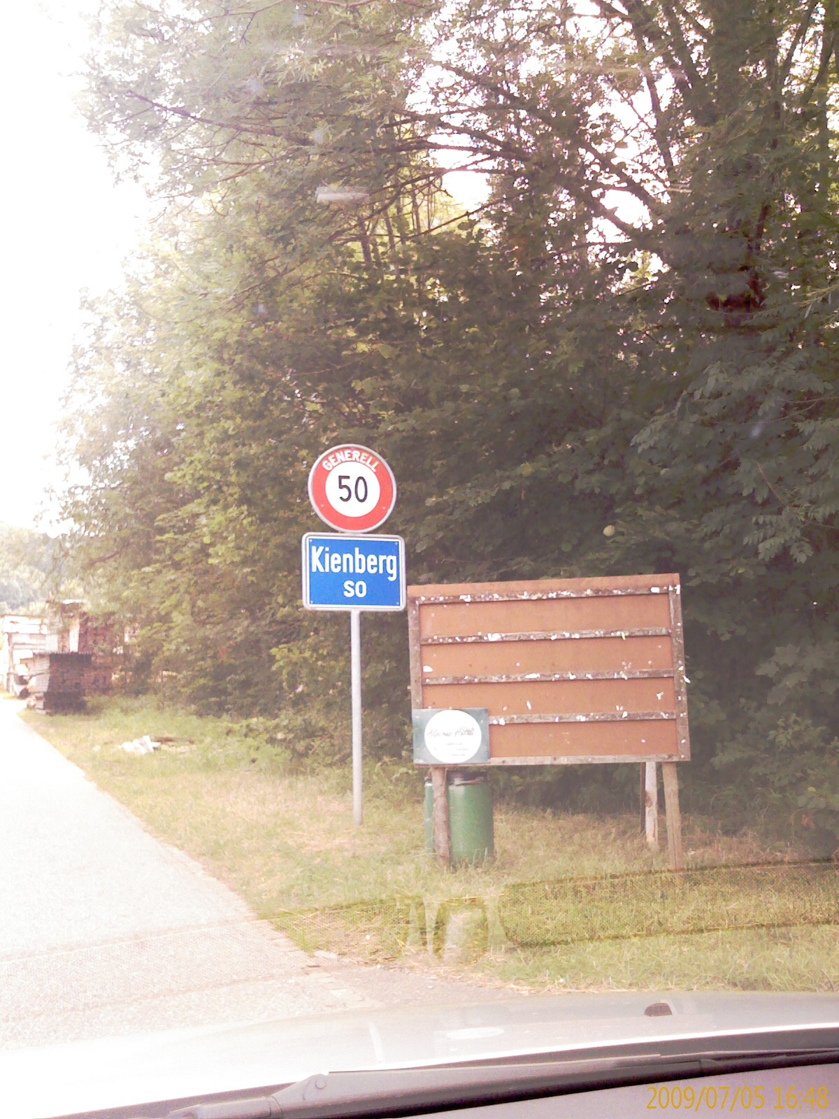 Village entry of Kienberg, canton of Solothurn, SwitzerlandEsperanto: Vilaĝeniro de Kienberg, Kantono Soloturno, Svislando